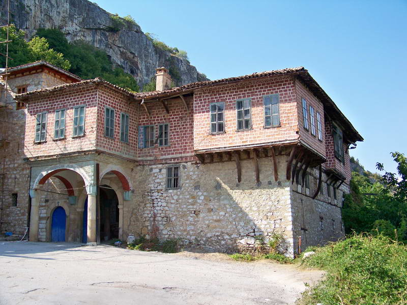 Transfiguration Monastery